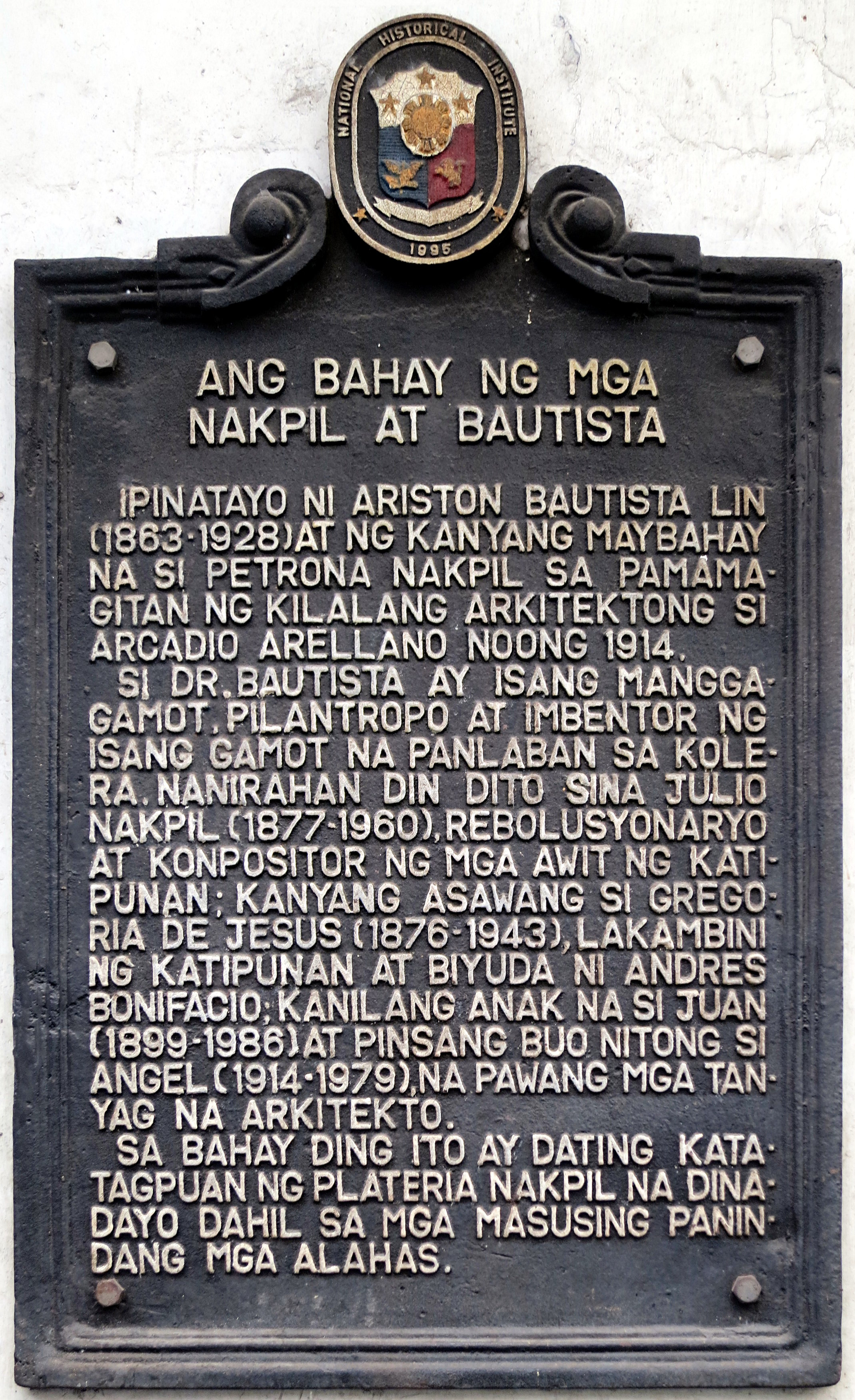 Historical marker installed by the National Historical Commission of the Philippines to commemorate the Nakpil-Bautista House in Quiapo, Manila.